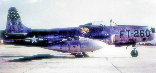 RF-80 of the 67th Tactical Reconnaissance Group, Korea.